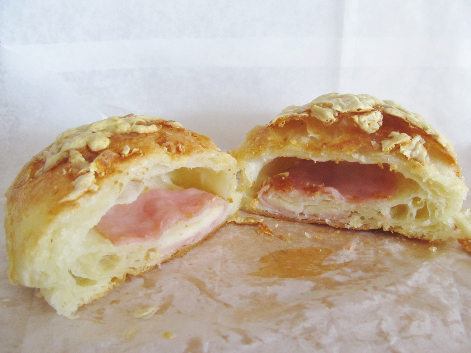 The inside of this croissant